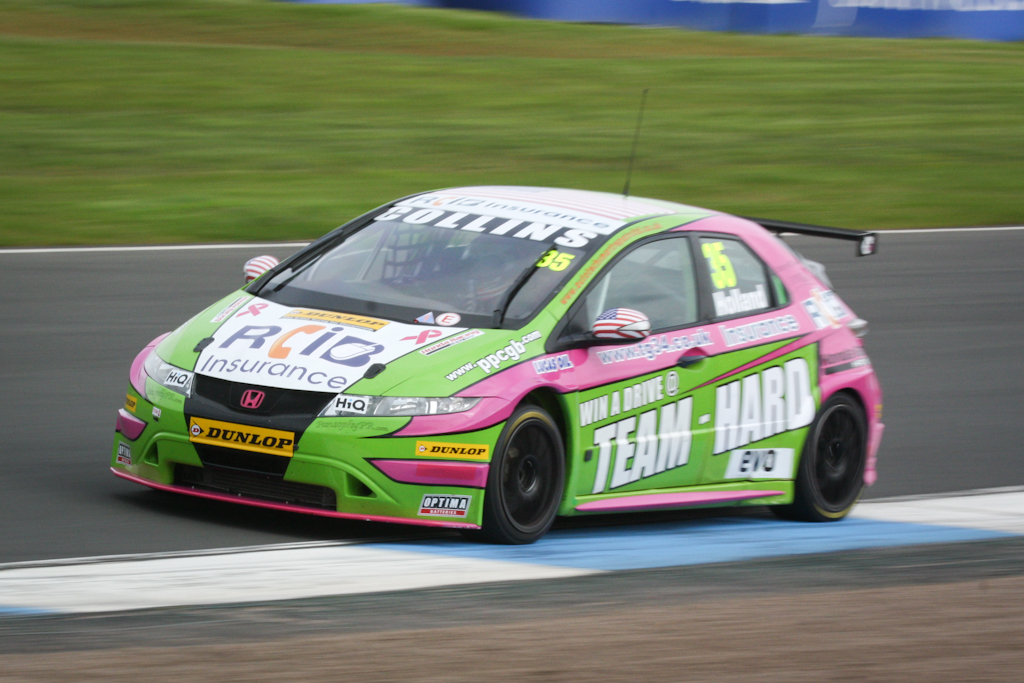 Robb Holland 2012 BTCC Knockhill